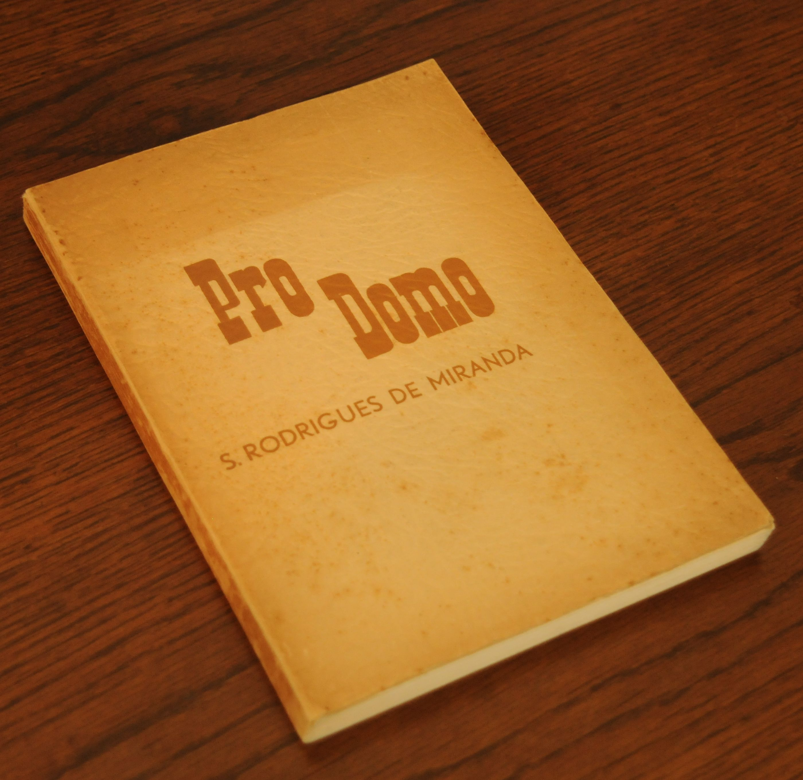 Pro Domo, boek van Monne de Miranda uit 1940, een van de weinige exemplaren. Volgens Geert Mak door De Miranda zelf ingenaaid. Dit exemplaar werd gegeven aan A.J.A. Rikkert, een ambtenaar van de dienst Woningbouw van de gemeente Amsterdam. Het boek bevat de Ex Librissen van De Miranda en Rikkert. Het boek zelf werd niet officieel uitgegeven, dat gebeurde eigenlijk pas in 1997 met een uitgebreide toelichting.